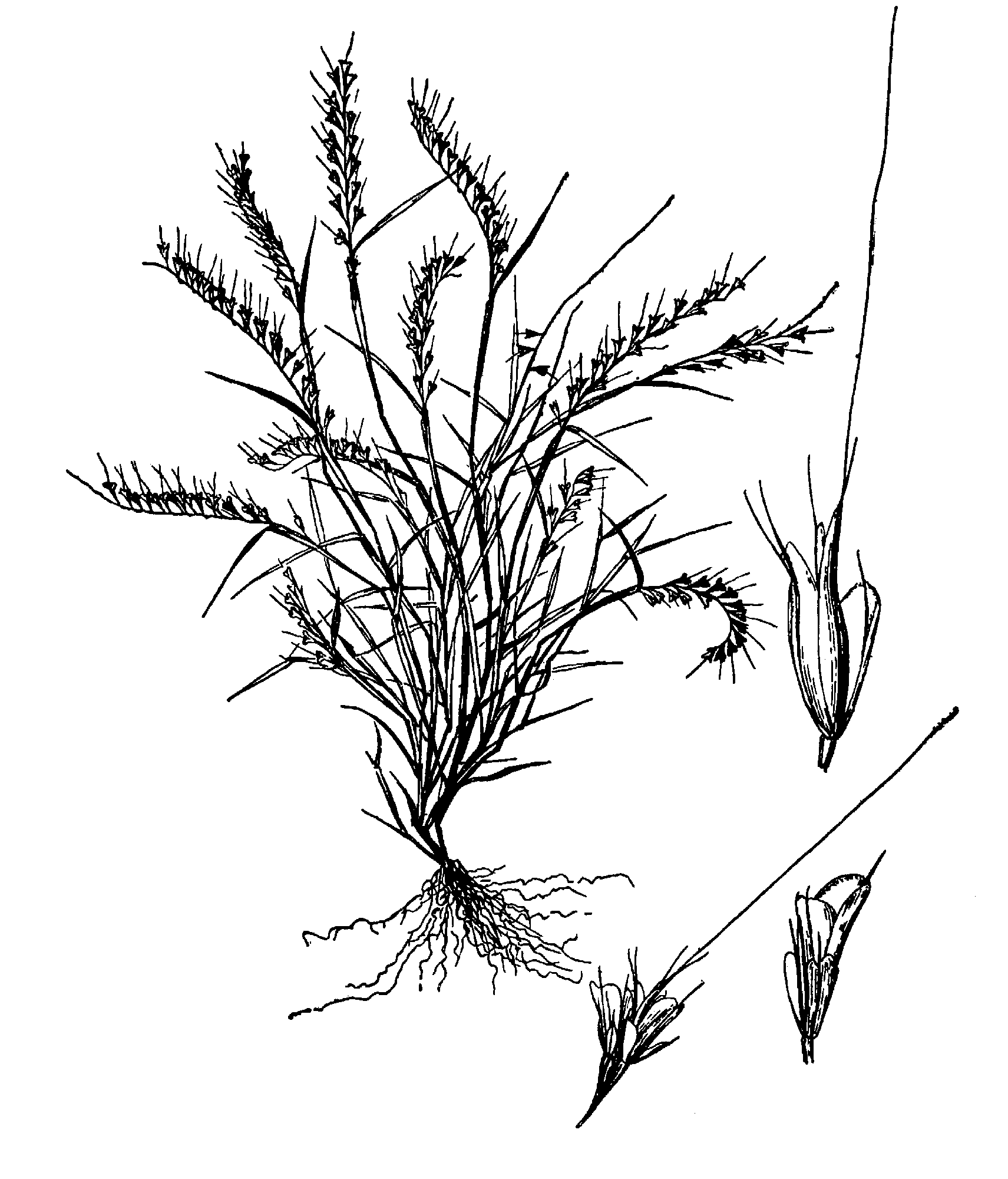 Fragilegrass. Drawing.